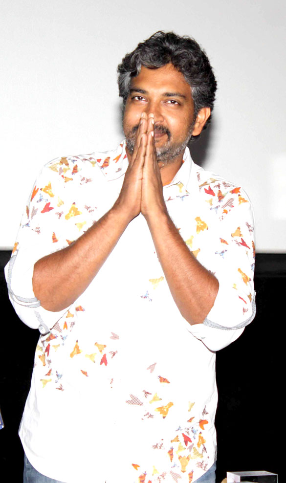 Celebs at the special screening of 'Makkhi'